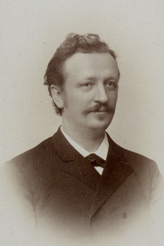 Porttrait of Dr. med. Paul Zieger, around 1900